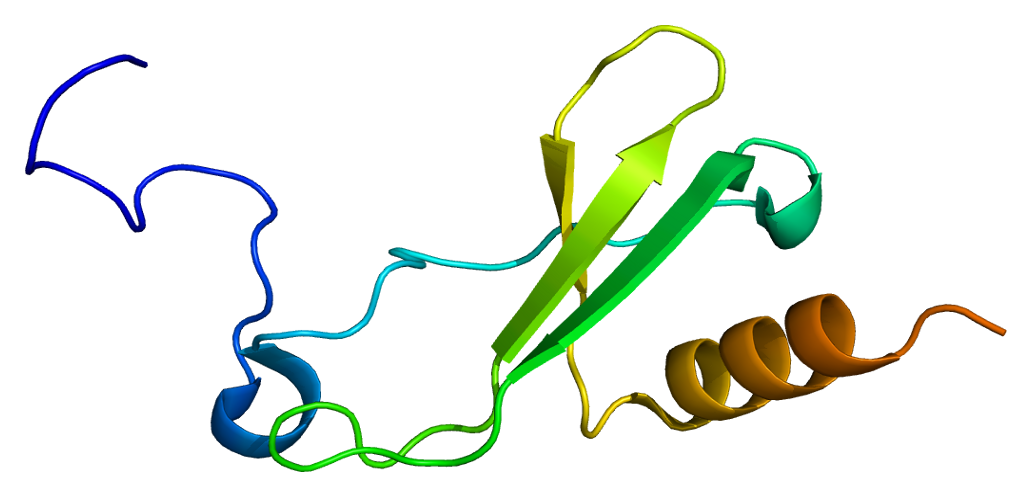 Structure of the PPBP protein. Based on PyMOL rendering of PDB 1f9p.